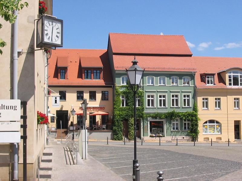 Historic center Belzig, city hall square. Belzig is the central town of the district Potsdam-Mittelmark in the state Brandenburg of Germany. Belzig appertains to the natural preserve Naturpark Hoher Fläming.